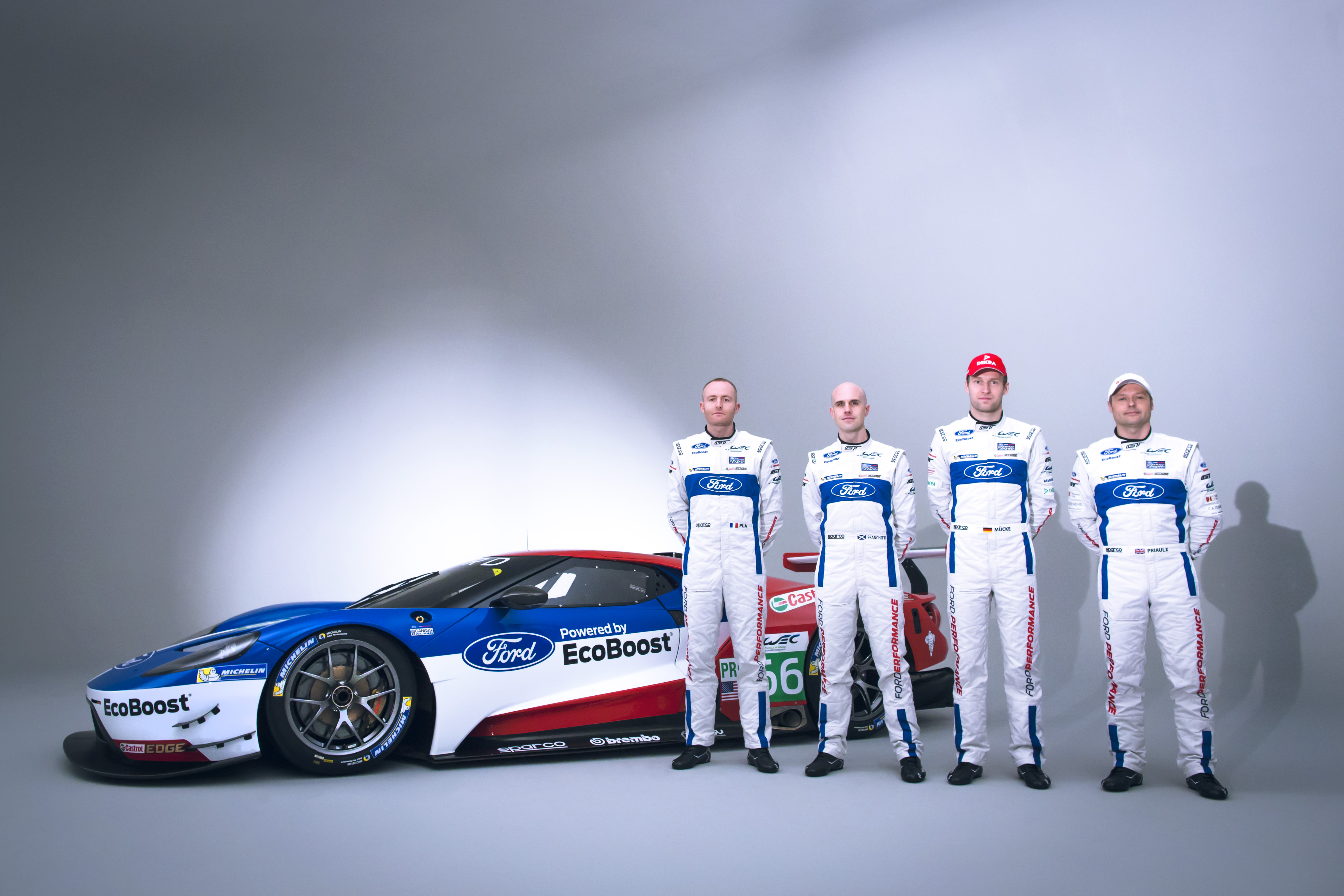 The Ford GT (2nd Generation) Le Mans GTE car. Set to compete at the 2016 24 Hours of Le Mans and 2016 FIA World Endurance Championship. Ford Chip Ganassi Racing drivers (from left to right): Olivier Pla, Marino Franchitti,Stefan Mücke and Andy Priaulx.